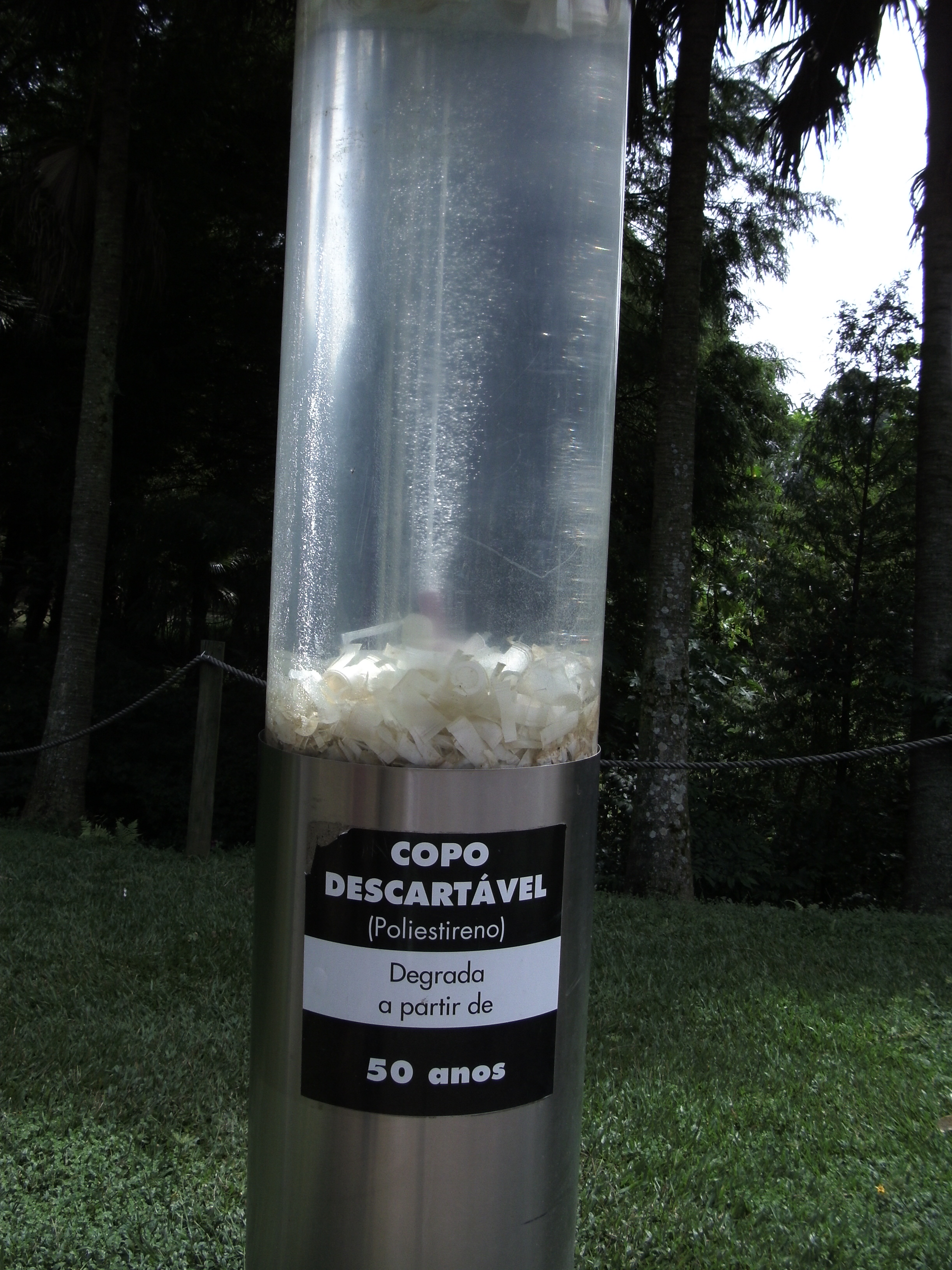 Descartable cup